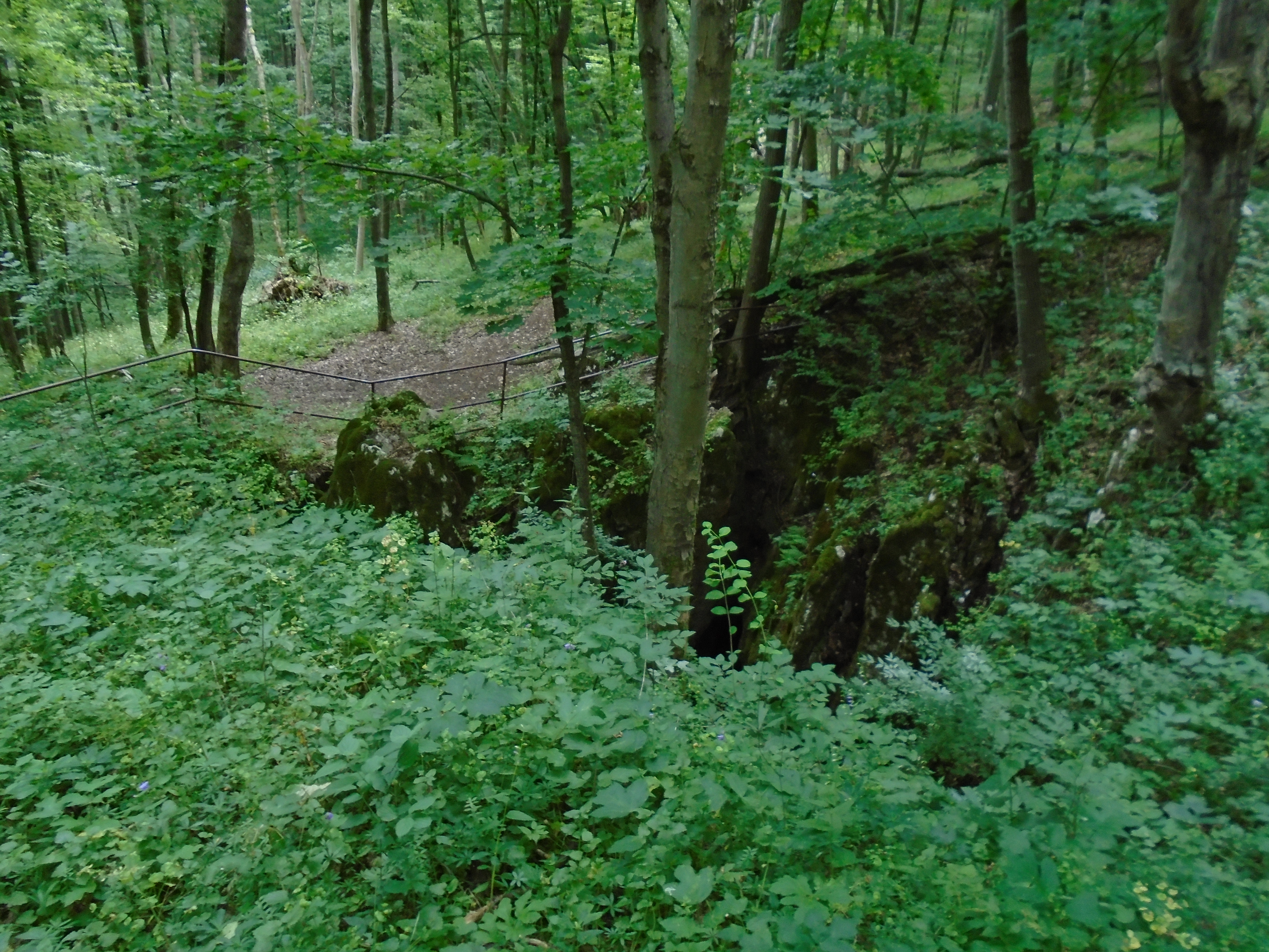 Entrance of Vecsembükk Pothole, Aggtelek Karst, Bódvaszilas